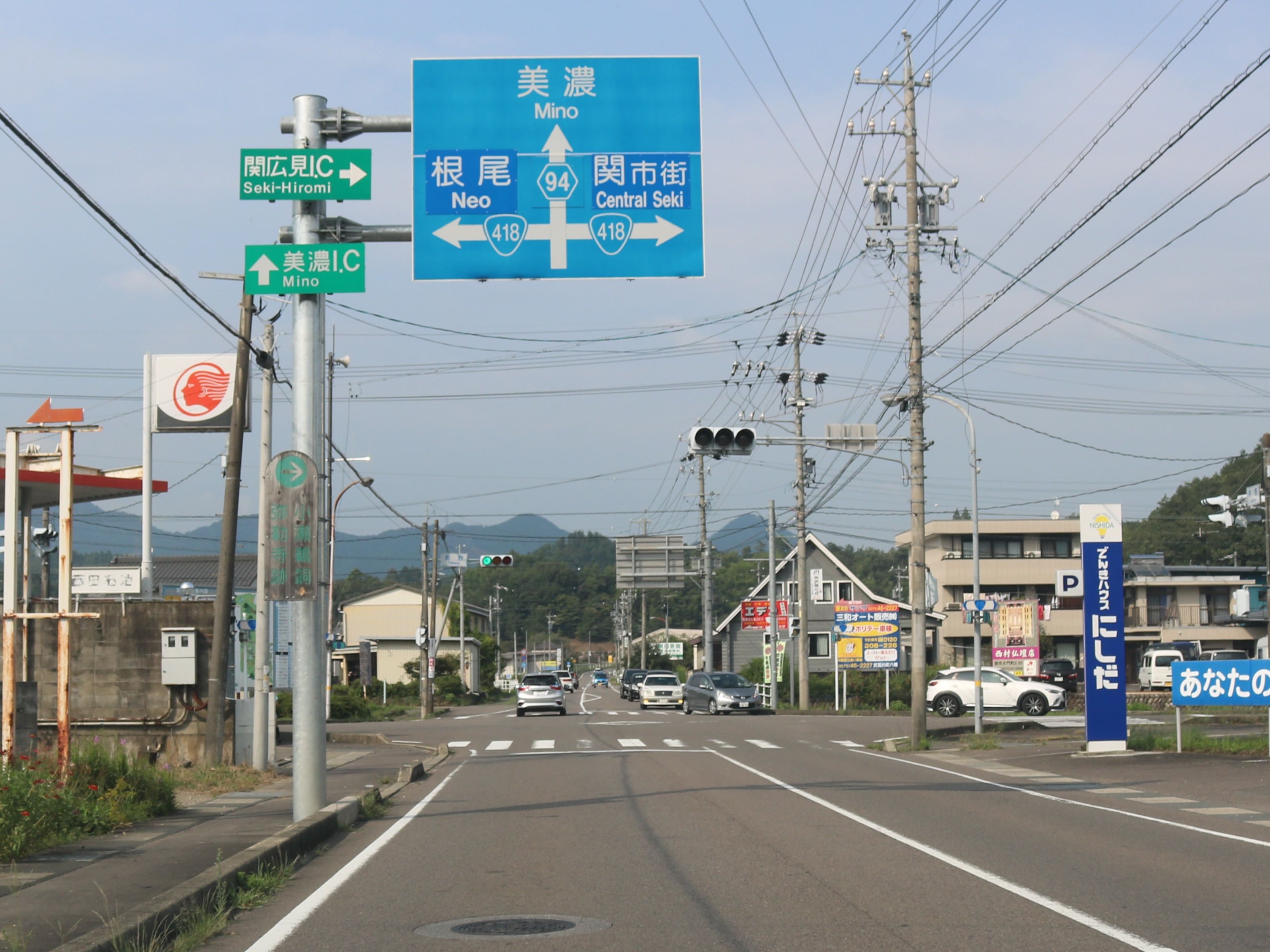 Gifu Prefectural Road Route 94 and Route 418 in Takano, Mugegawacho, Seki, Gifu Prefecture, Japan.